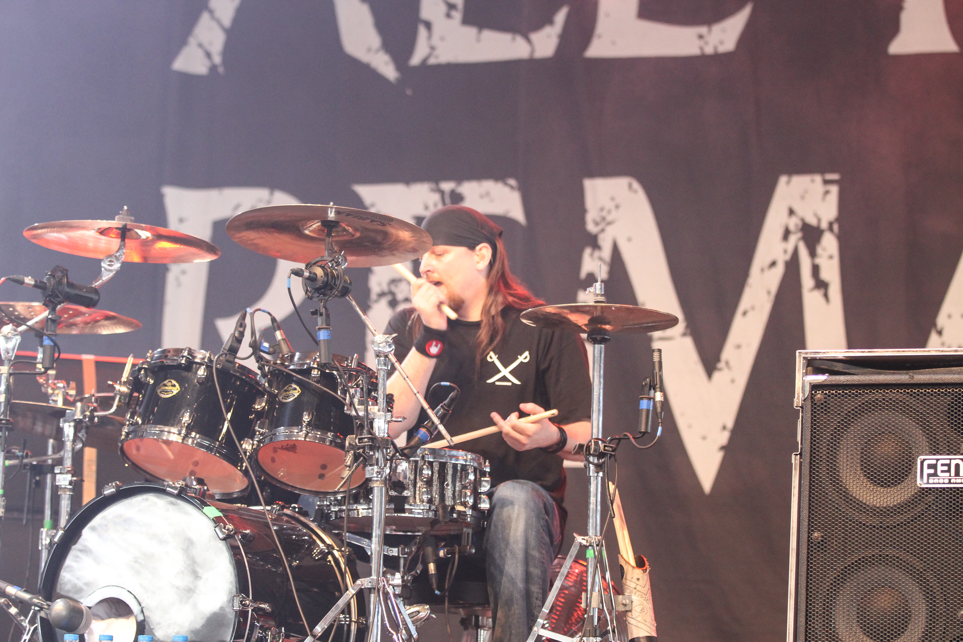 US Band All That Remains at With Full Force Festival 2013